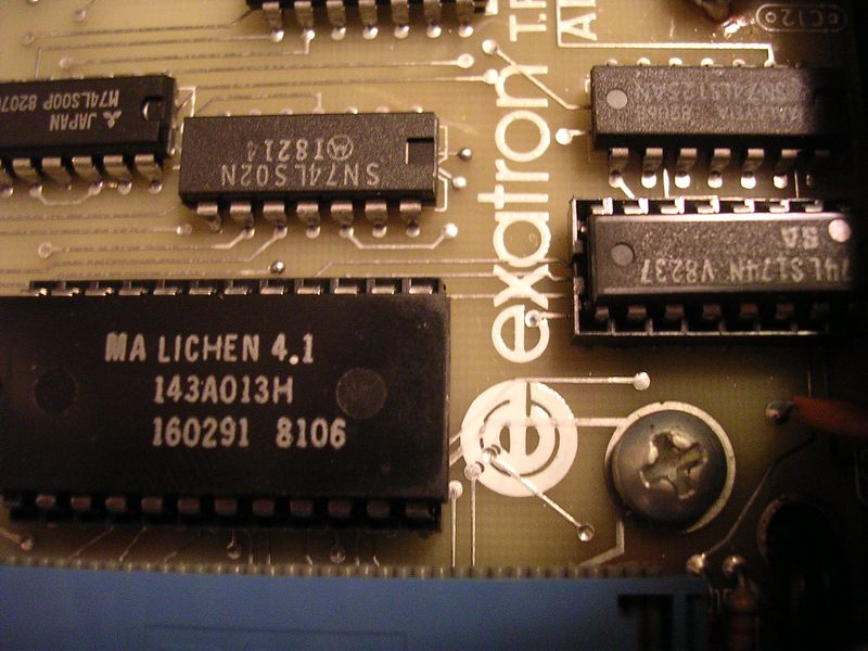 Photograph taken by David C. Sutherland (soSJS gsDLS) of a portion of an Exatron circuit board for the TRS-80 Model 1 Exatron Stringy Floppy showing the ROM chip labeled "LICHEN" confirming Li-Chen Wang's relationship to the project.